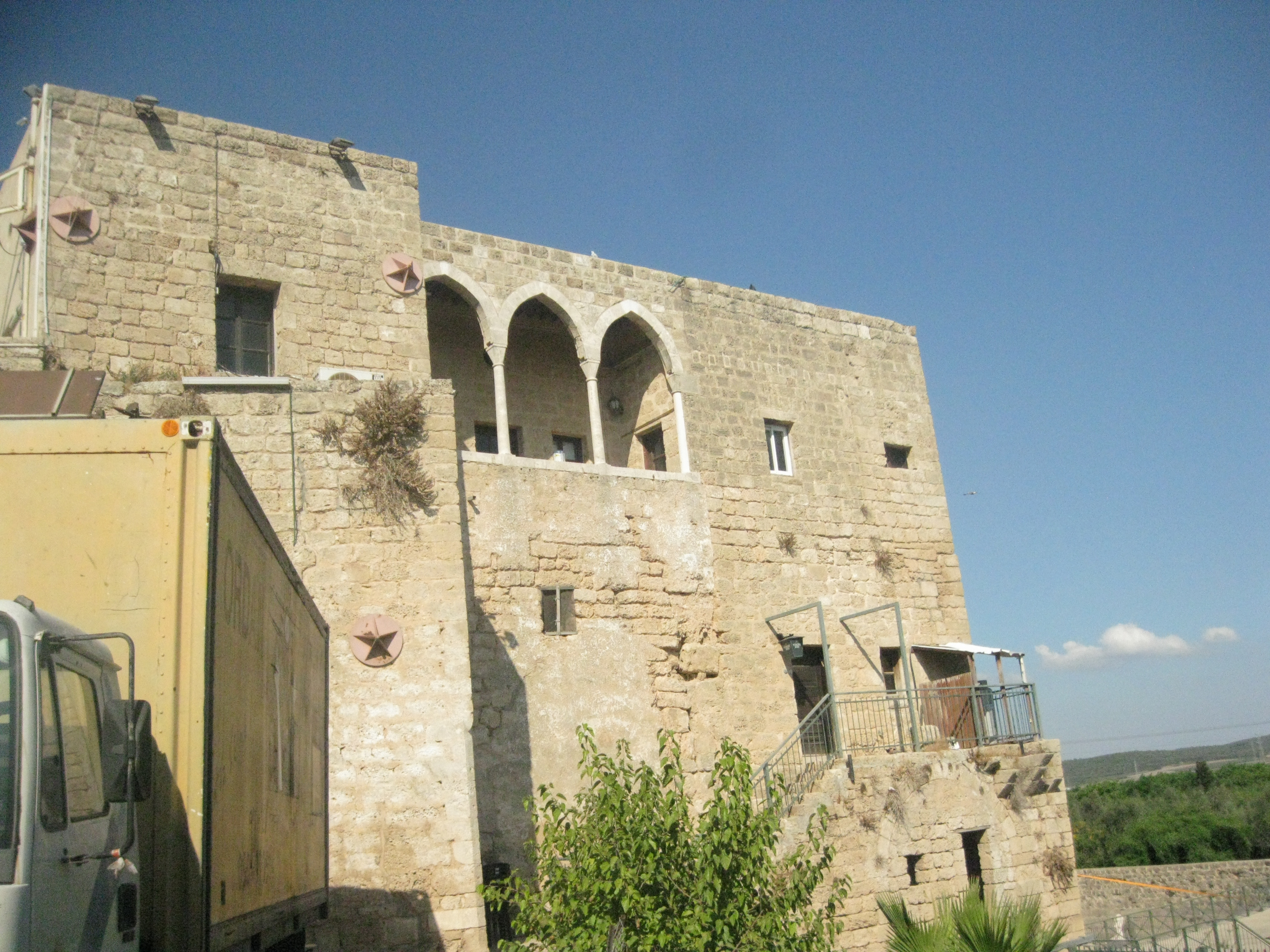 Binyamina near HaRishonim House.